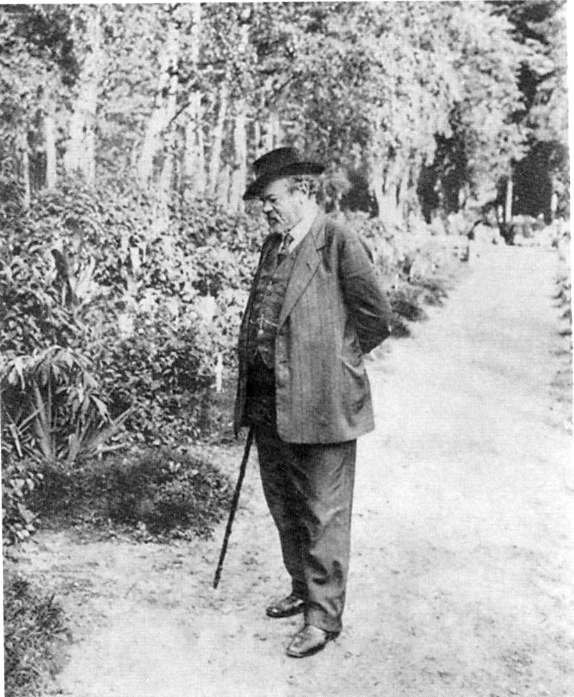 Sergey Puchkov at the Moscow Brotherly Cemetery.